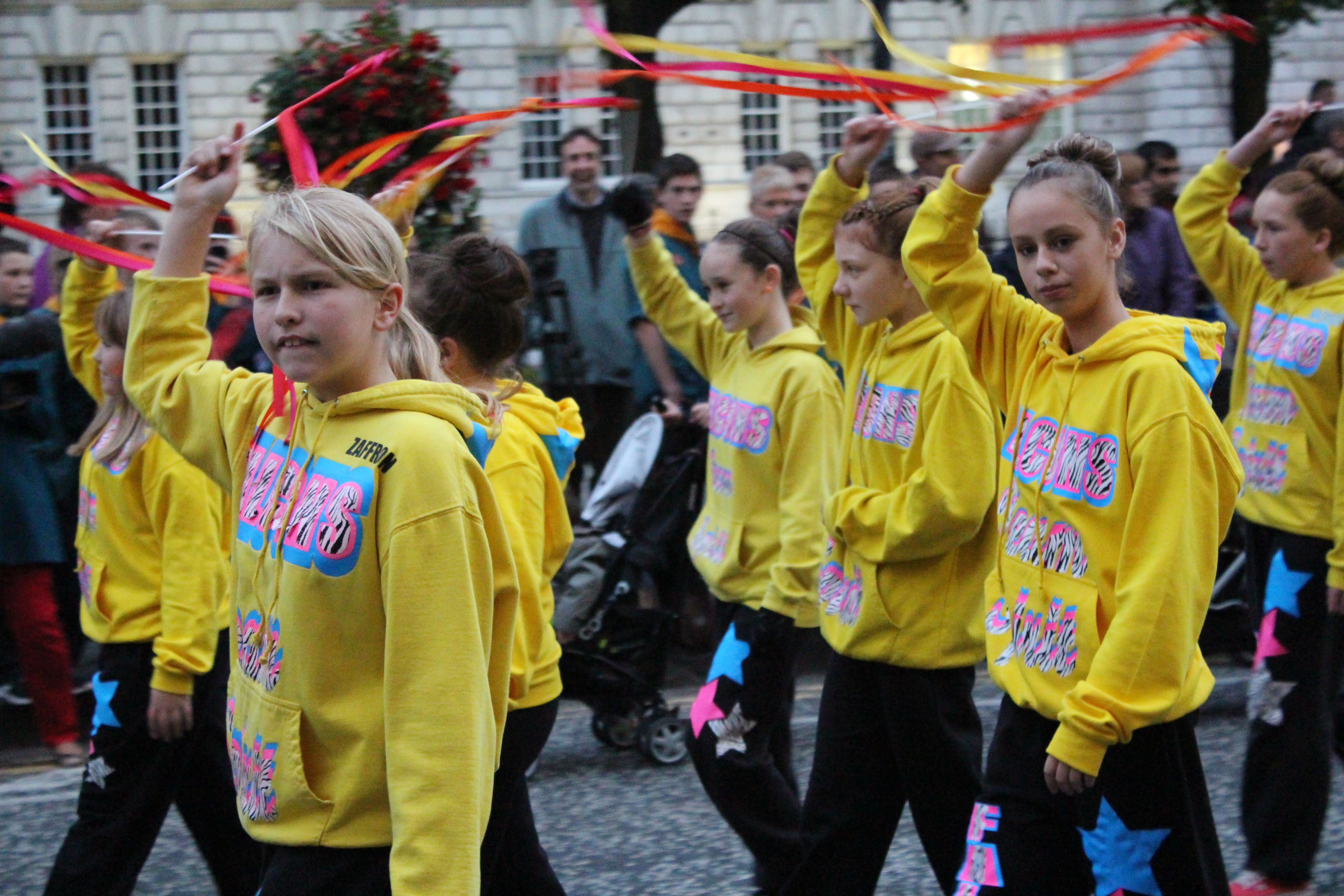 Chinese Mid-Autumn Festival parade, Belfast City Hall, Belfast, Northern Ireland, September 2012